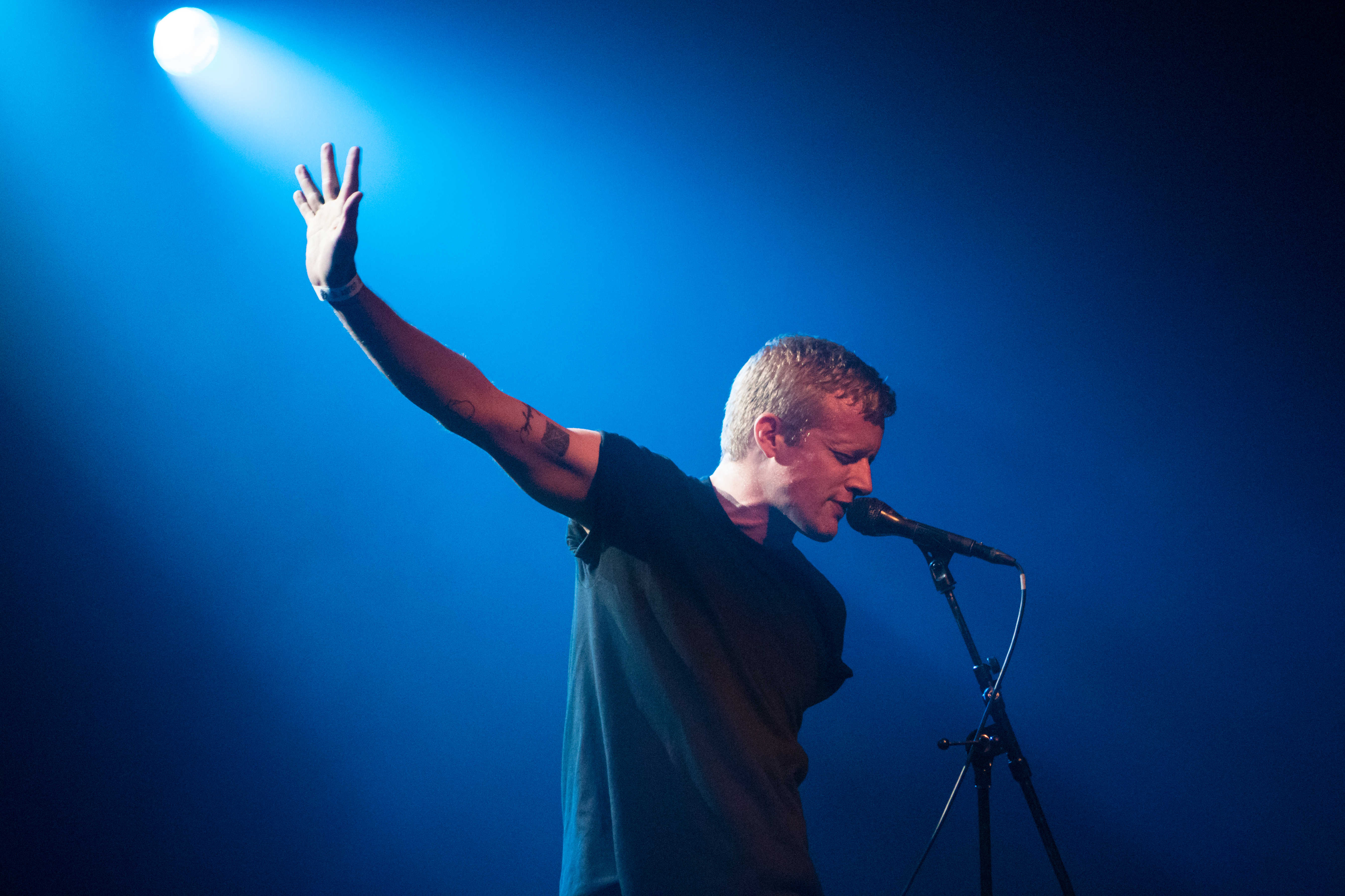 Astronautalis at Way Back When Festival 2017 in Dortmund